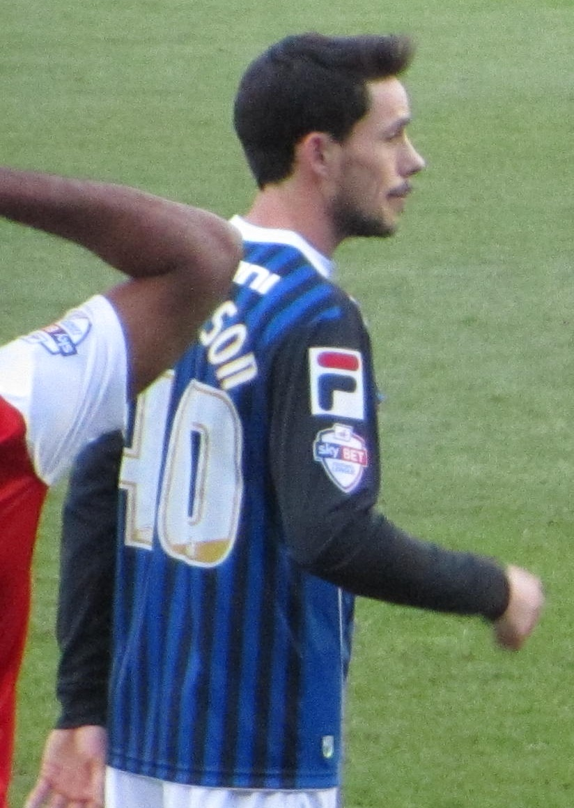 Ian Henderson.